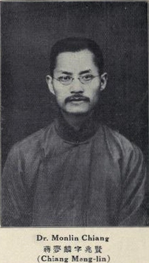 Jiang Menglin (Chiang Meng-lin; Monlin Chiang),Zhaoxian (1886 - 1964)